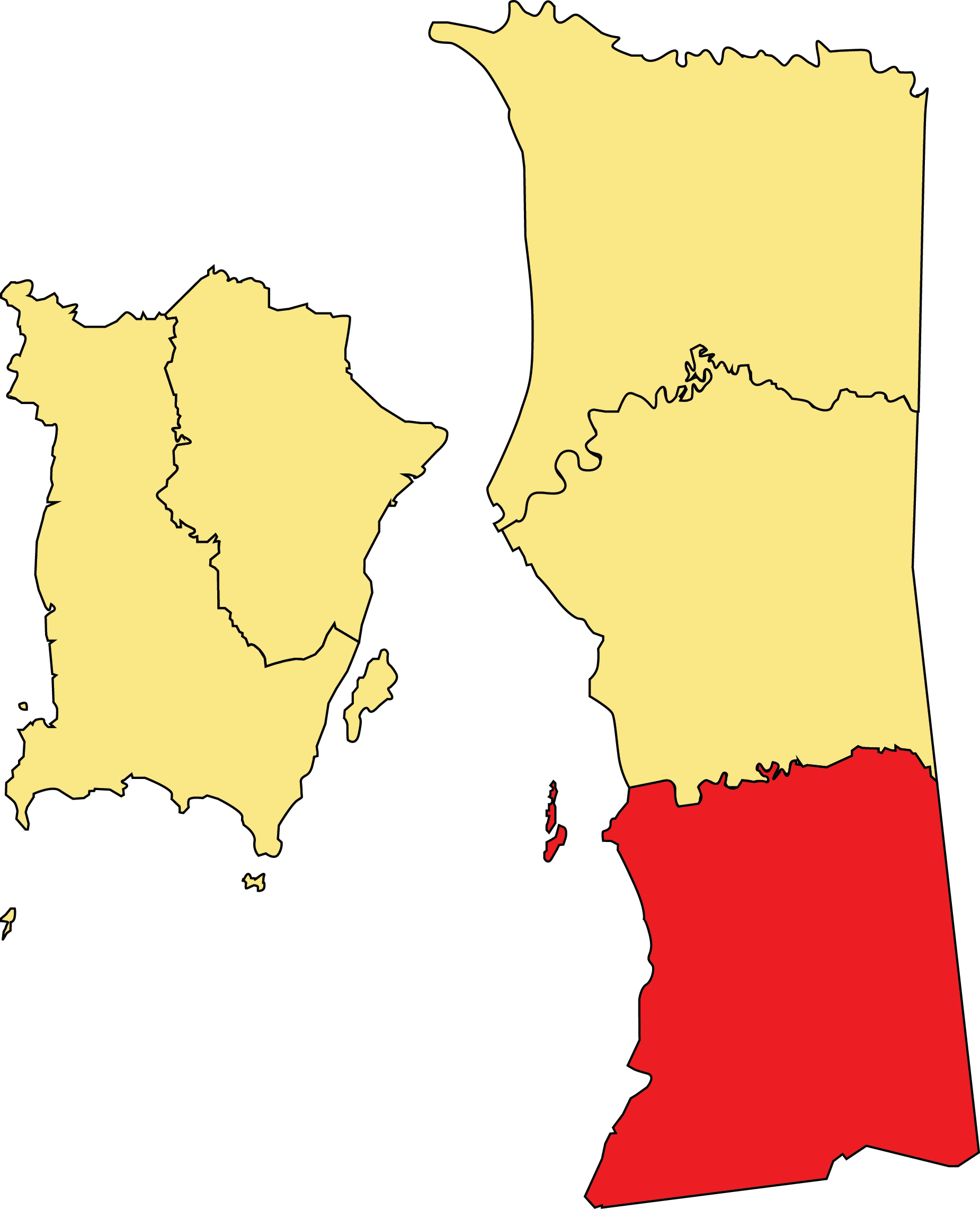 Location of South Seberang Perai District within the state of Penang, Malaysia.